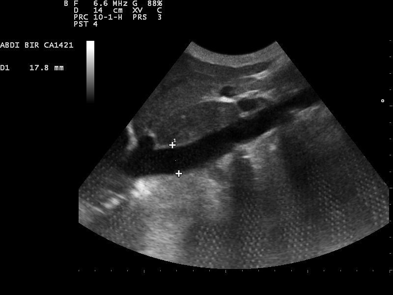 Ultrasound images of inferior vena cava